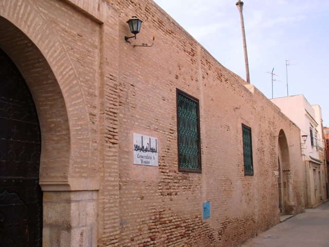 Sidi Amor Abbada Mausoleum in Kairouan